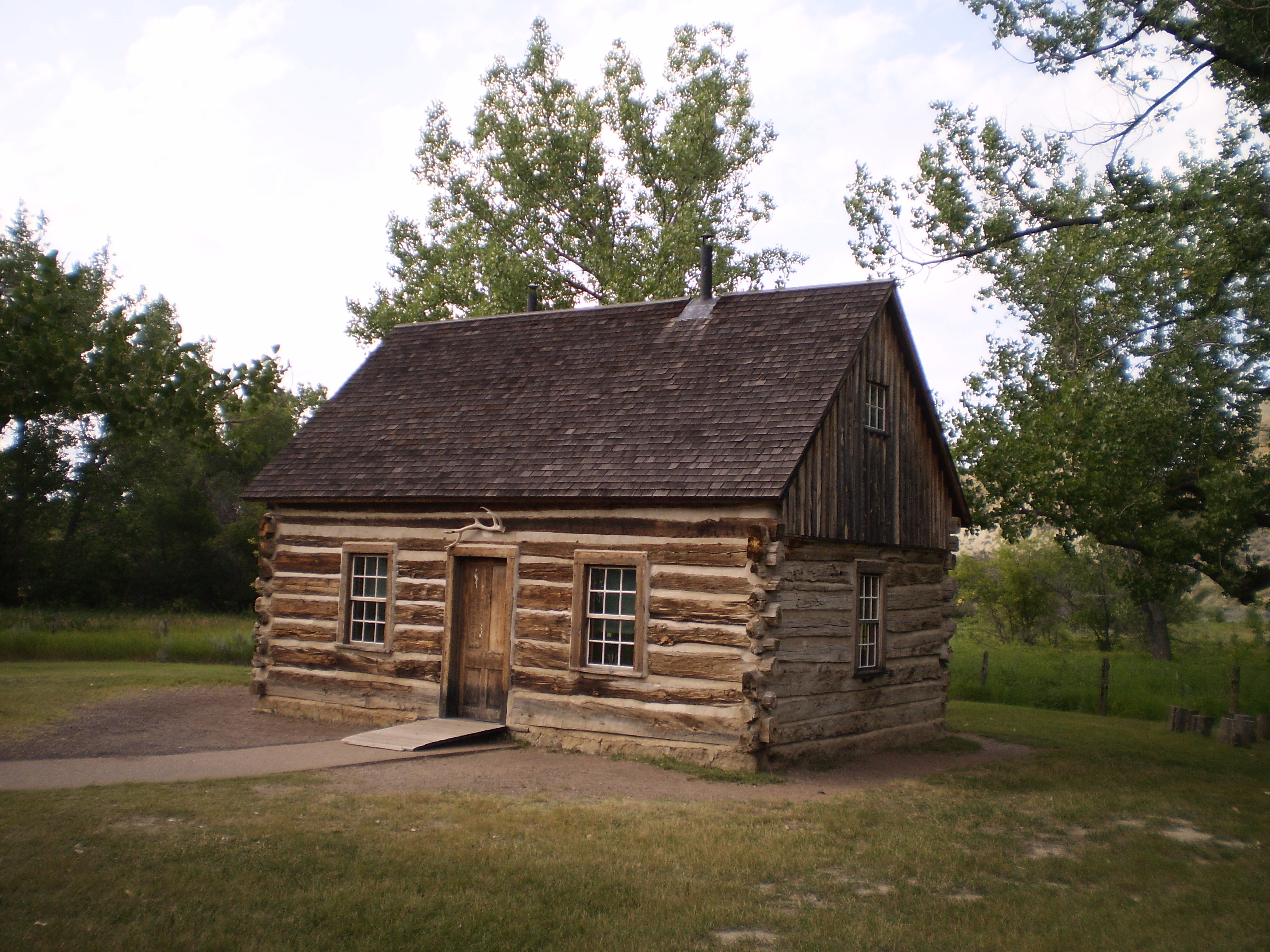 Theodore Roosevelt's 1884 Maltese Cross Ranch log cabin — in present day Theodore Roosevelt National Park, North Dakota.